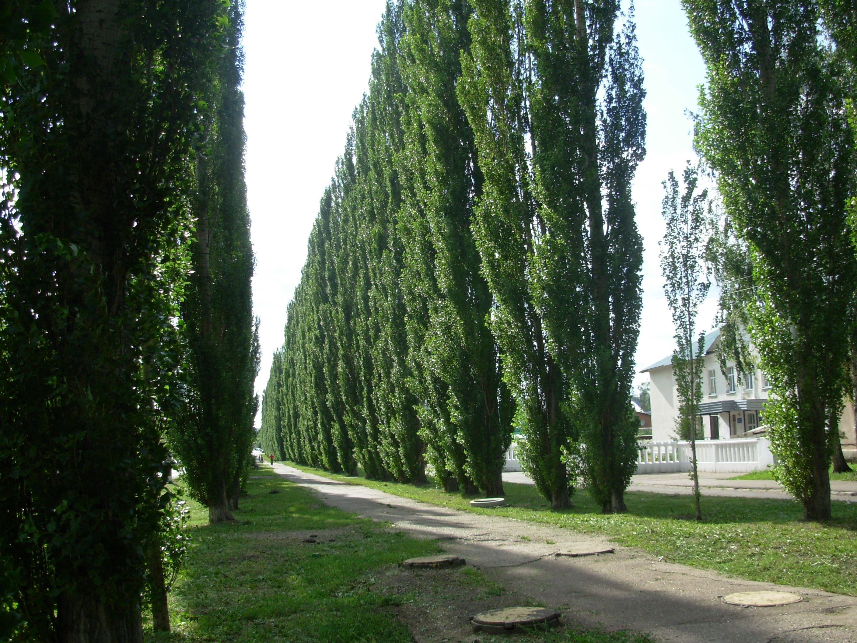 street